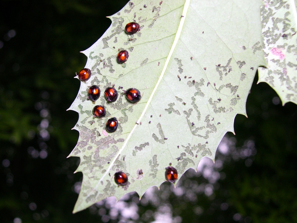 Argopistes coccinelliformis Csiki,1940 (Coleoptera: Chrysomelidae) feeding on Osmanthus × fortunei (Osmanthus fragrans × Osmanthus heterophyllus) Loc: Yokohama, Kanagawa Prefecture, Japan. ja: ヒイラギモクセイを食べるヘリグロテントウノミハムシ（ハムシ科ノミハムシ亜科）の成虫。 場所：横浜市。